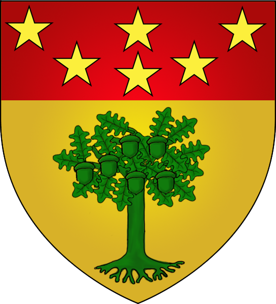 Coat of arms of the municipality of Goesdorf, Luxembourg